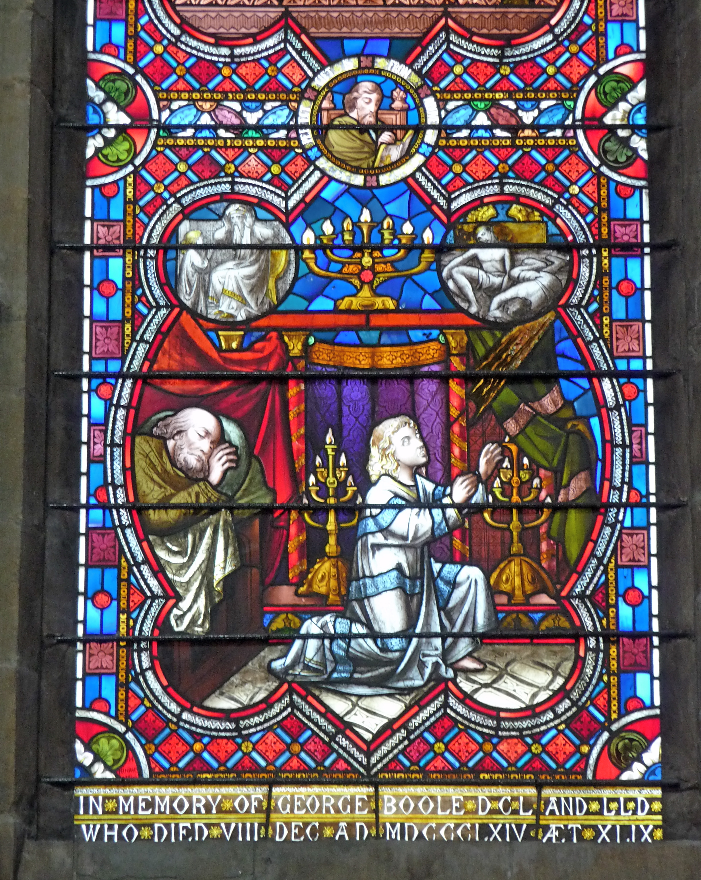 The bottom third of the stained glass window in Lincoln Cathedral dedicated to George Boole